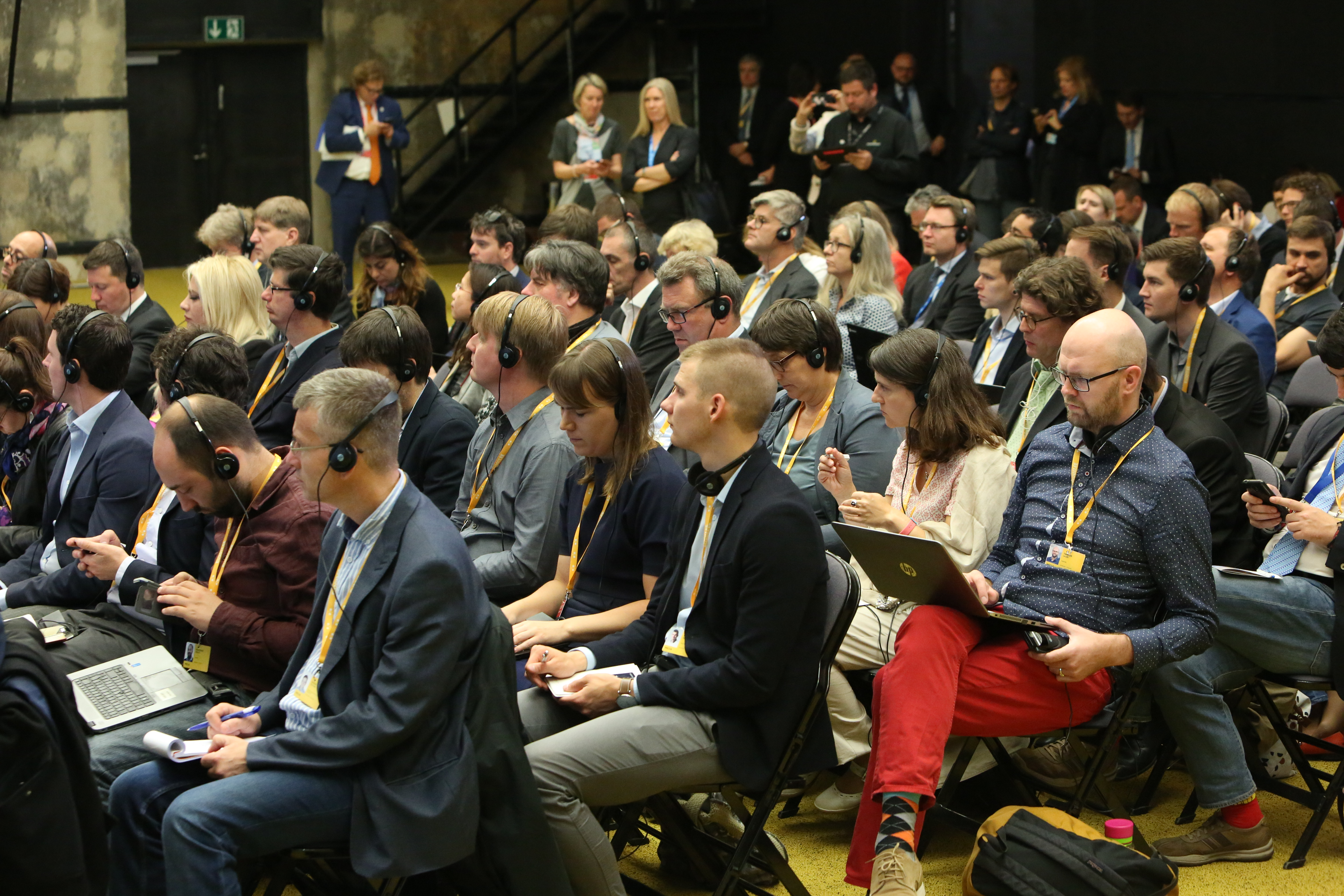 Media. Press conference